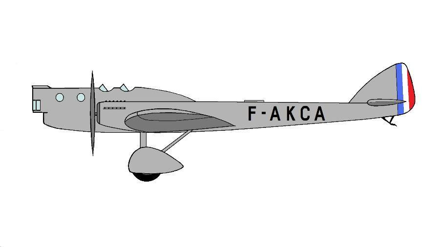 SPCA 30, light bomber built by the Société Provençale de Constructions Aéronautiques (SPCA) in 1931.